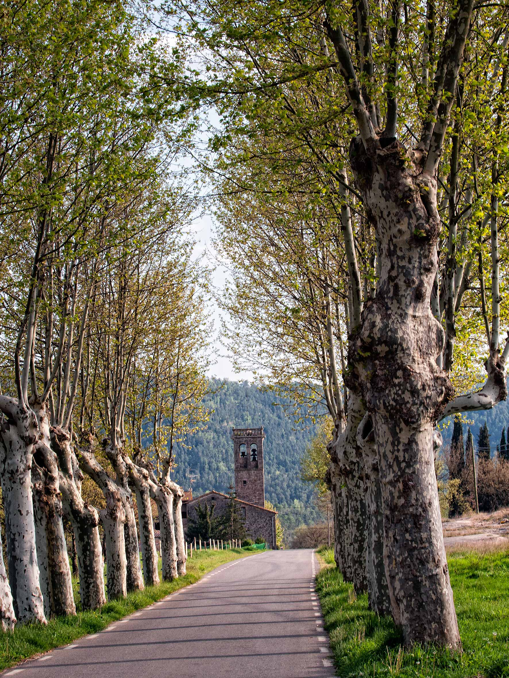 Avenue of trees in Santa Maria de Merlés (Catalonia, Spain).